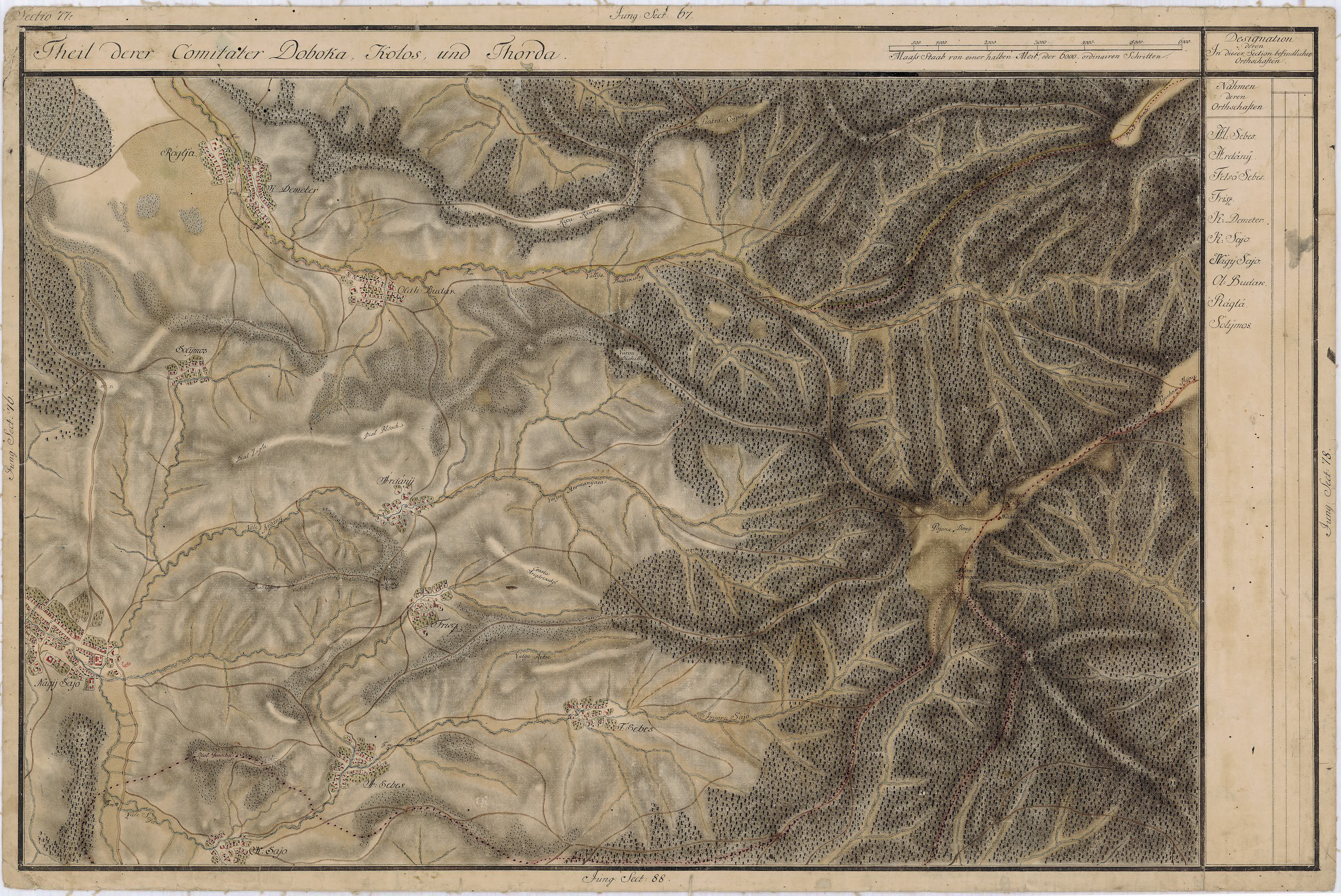 Grand Duchy of Transylvania, 1769-1773. Josephinische Landaufnahme pg.077